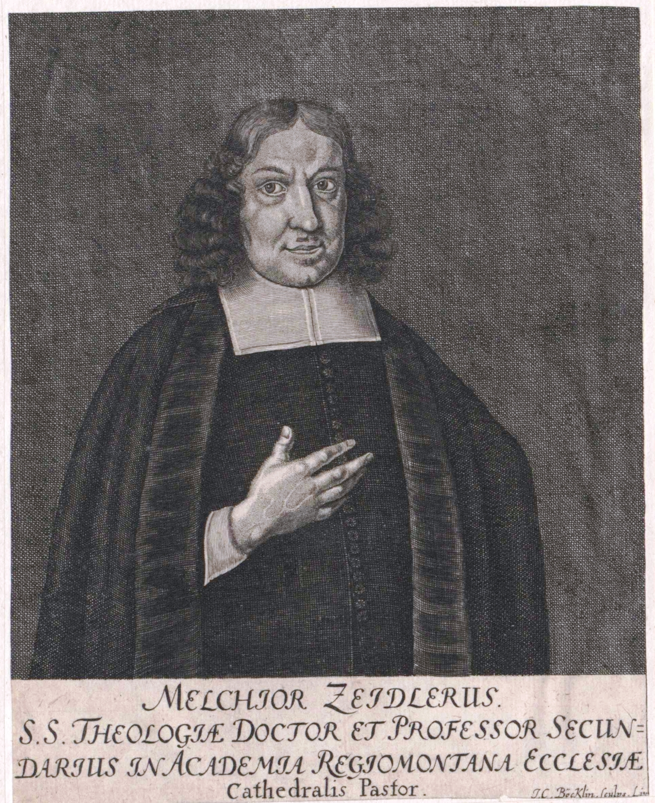 Melchior Zeidler (1630-1686) Philosophers and Protestant theologians from Germany